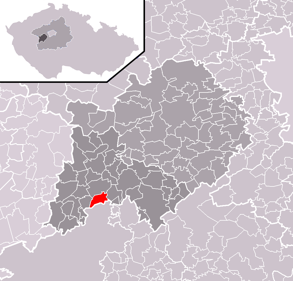 Location of Podluhy municipality within Beroun District and administrative area of Hořovice as a Municipality with Extended Competence.